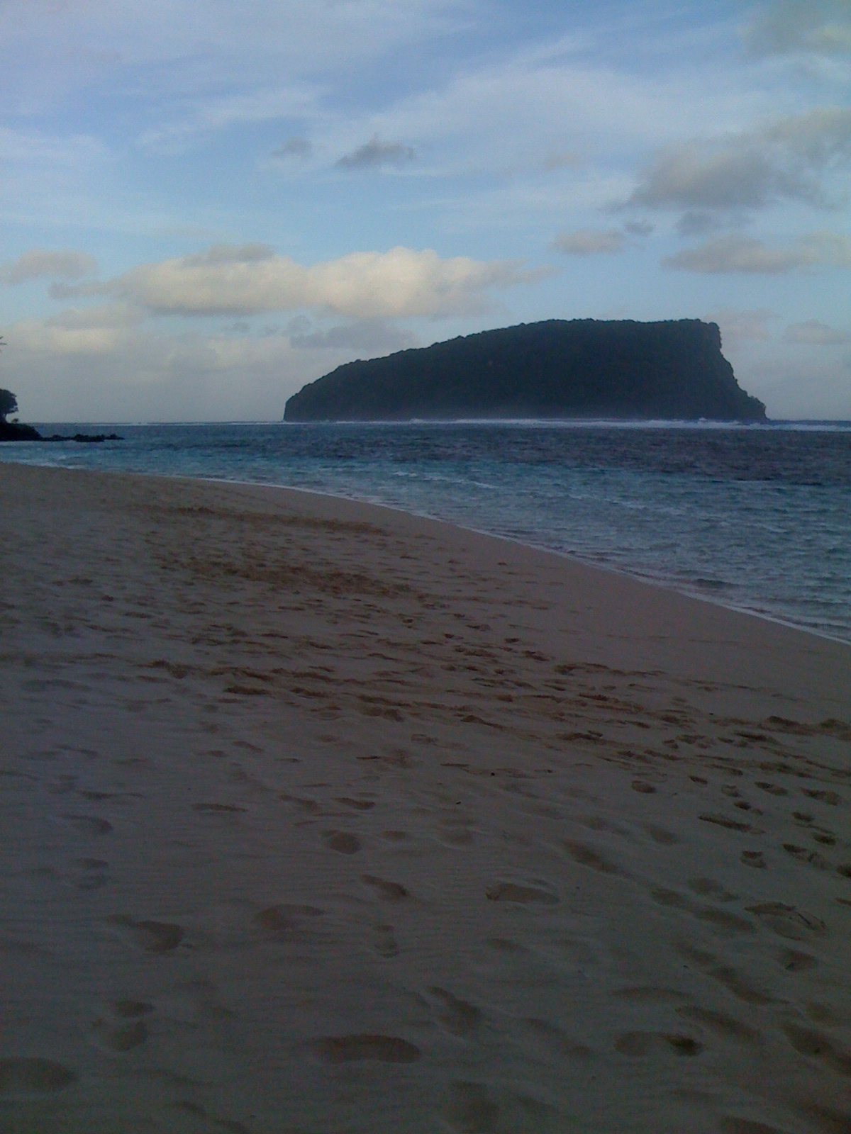 Nu'utele island seen from Lalomanu beach on the east side of Upolu island in Samoa. (low res iPhone photo).